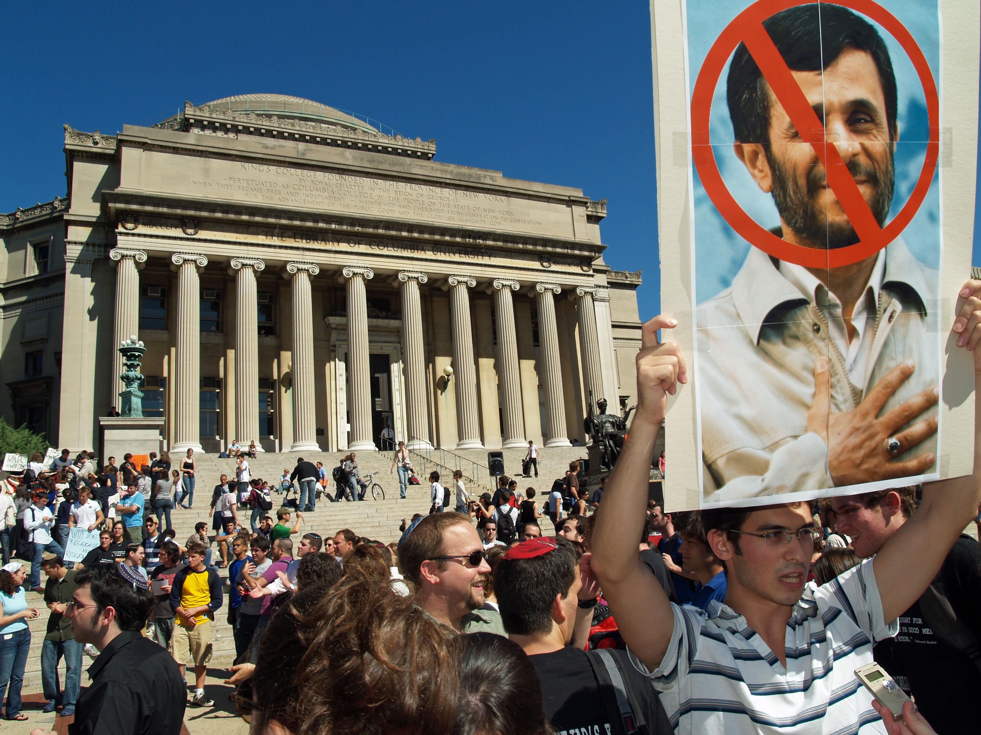 Studentss protesting against the speech of the Iranian president Mahmoud Ahmadinejad at Columbia University